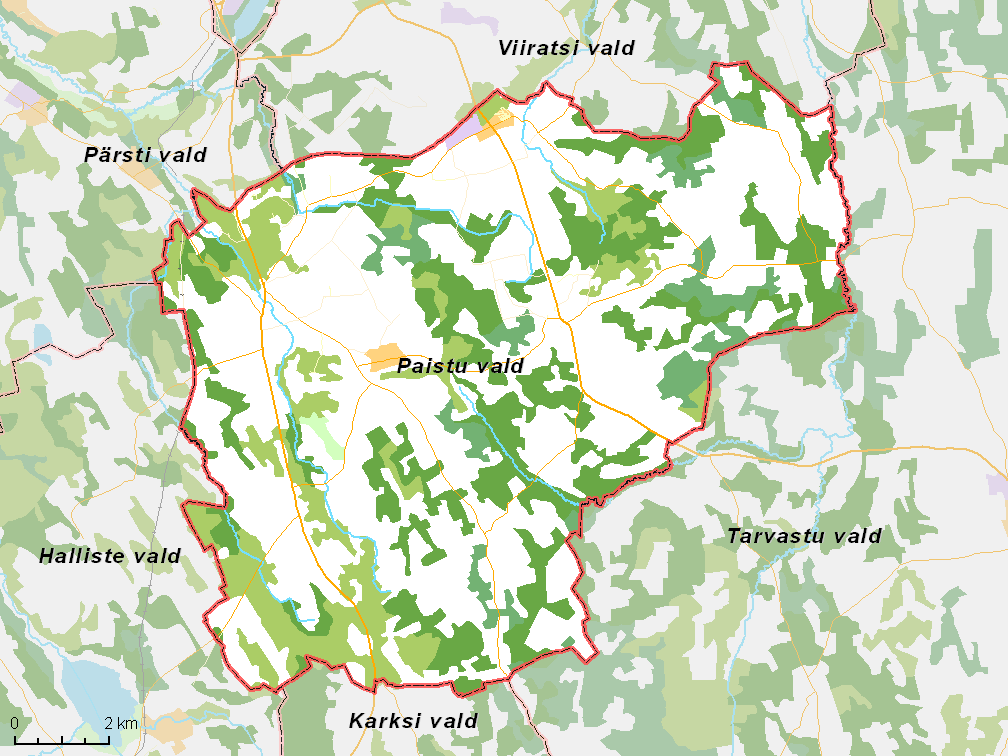 Map of municipality in Estonia